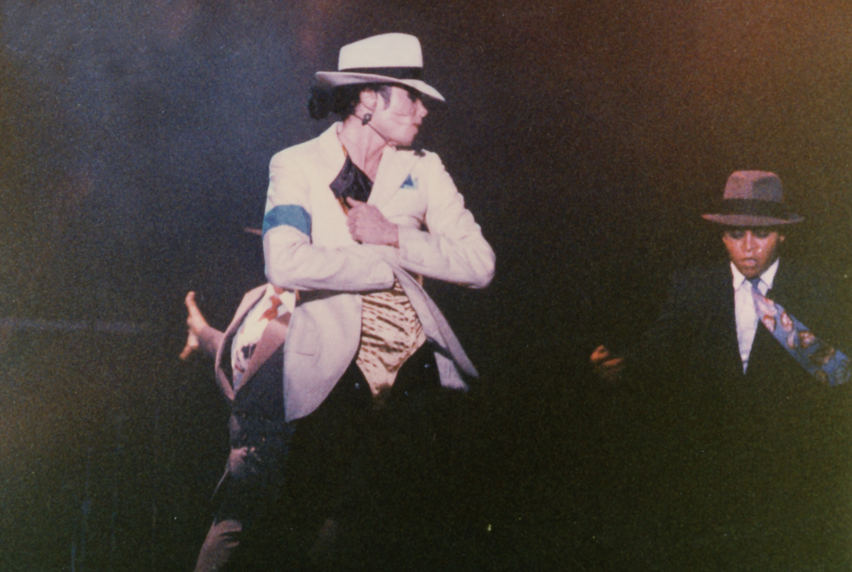 Michael Jackson live "Dangerous Tour" in Monza (Italy) 06/07/1992